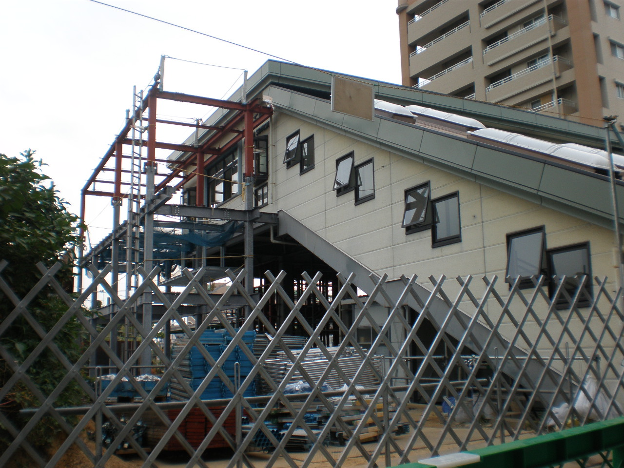 Chidori Station on Kagoshima Main Line. A lift is going to be newly installed